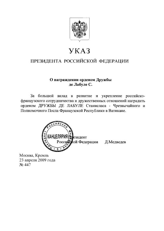 Scanned copy of the ukase number 447 the decoration of the French Ambassador Stanislas Lefebvre de Laboulaye by the Order of friendship, signed by the president of Russian Federation Dimity Medvedev on the 23rd of April 2009 about